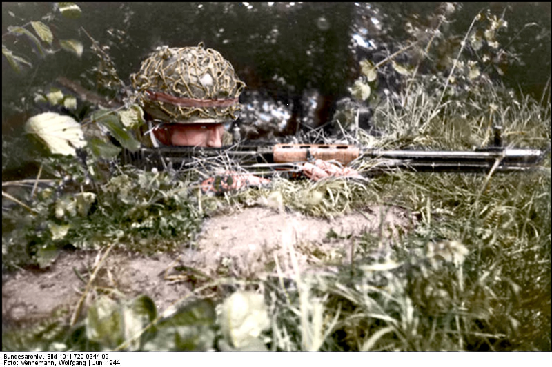 This is a retouched picture, which means that it has been digitally altered from its original version. Modifications: recolored. The original can be viewed here: Bundesarchiv Bild 101I-720-0344-09, Frankreich, Fallschirmjäger mit Fallschirmjägergewehr.jpg: . Modifications made by Ruffneck88. Frankreich, Fallschirmjäger mit Fallschirmjägergewehr Photographer Vennemann, WolfgangArchive description Description provided by the archive when the original description is incomplete or wrong. You can help by reporting errors and typos at Commons:Bundesarchiv/Error reports. Frankreich.- getarnter Fallschirmjäger in Deckung mit Fallschirmjäger-Gewehr 42 (FG 42) zielend, Mitte Juni 1944; KBZ Ob WestTitle Frankreich, Fallschirmjäger mit Fallschirmjägergewehr Depicted place FranceDate June 1944date QS:P571,+1944-06-00T00:00:00Z/10Collection German Federal Archives Native nameDas BundesarchivLocationKoblenz (headquarters)Coordinates50° 20′ 32.71″ N, 7° 34′ 21.22″ E Established1946Web page control : Q685753 VIAF: 137346469 ISNI: 0000 0004 0555 2728 LCCN: n92025526 NLA: 36455393 Open Library: OL55798A WorldCat institution QS:P195,Q685753Current location Propagandakompanien der Wehrmacht - Heer und Luftwaffe (Bild 101 I)Accession number Bild 101I-720-0344-09 Source This image was provided to Wikimedia Commons by the German Federal Archive (Deutsches Bundesarchiv) as part of a cooperation project. The German Federal Archive guarantees an authentic representation only using the originals (negative and/or positive), resp. the digitalization of the originals as provided by the Digital Image Archive.